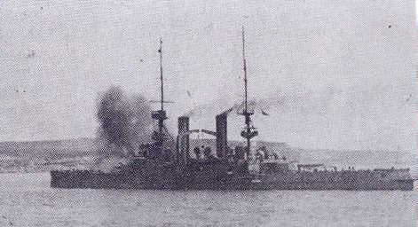 HMS Swiftsure (1903) firing at the Daradenelles in support of landings on 25 April 1915